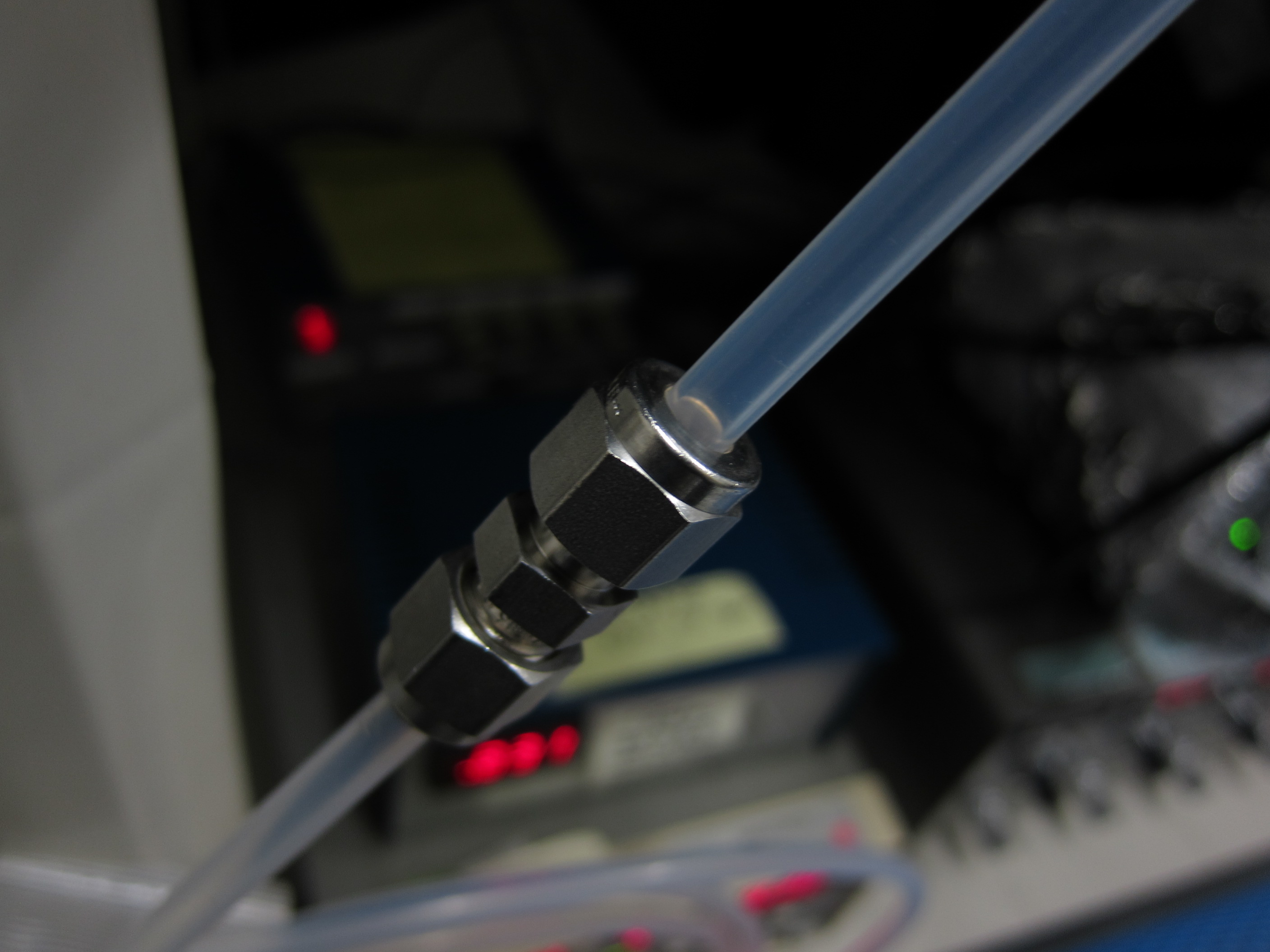 swagelok connector connecting two teflon tubes